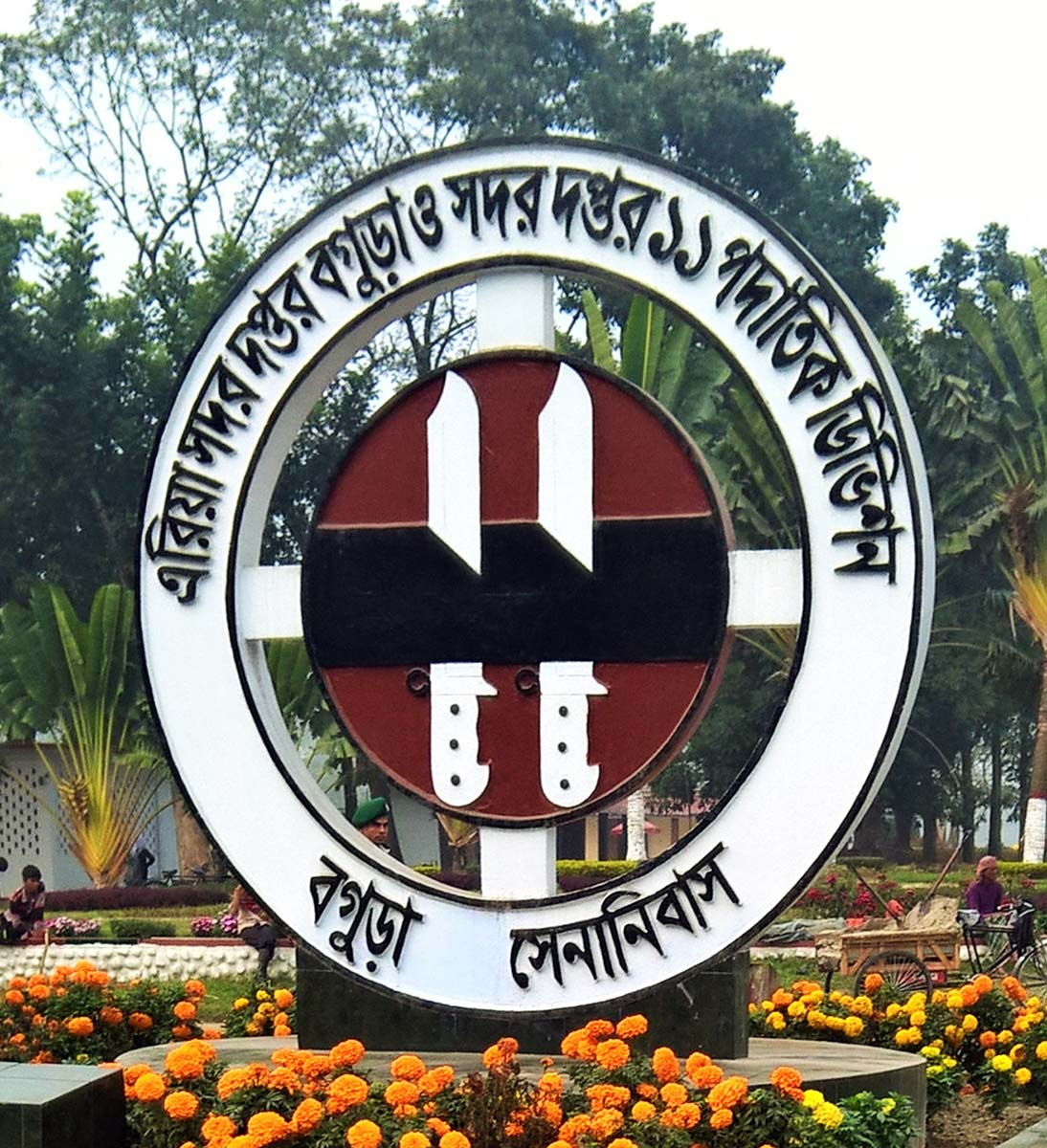 Majhira Cantonment, also known historically as Bogra Cantonment, is a cantonment about 10 kilometers south of Bogra town in northern Bangladesh.